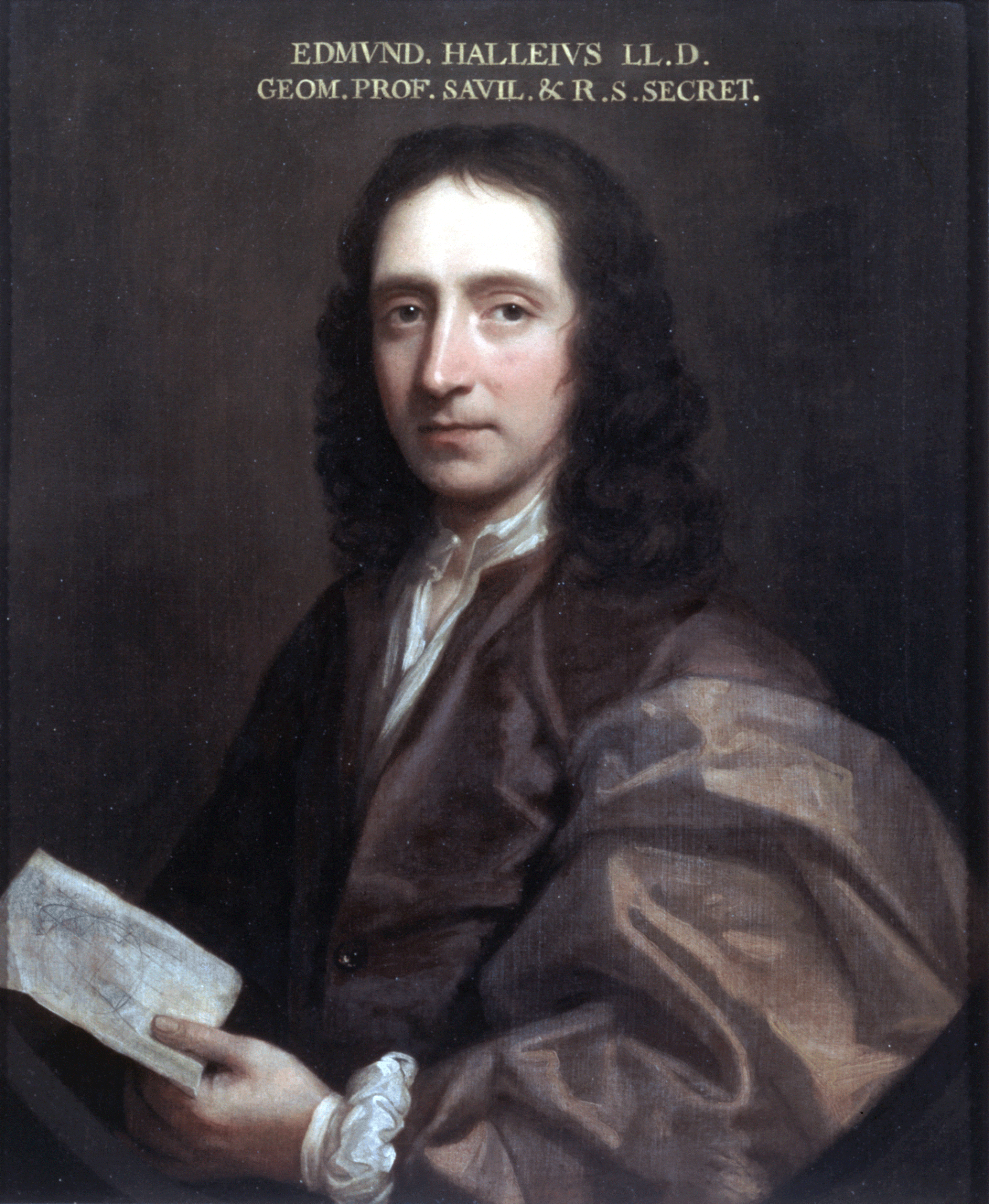 Portrait of Edmond Halley (1656-1742)